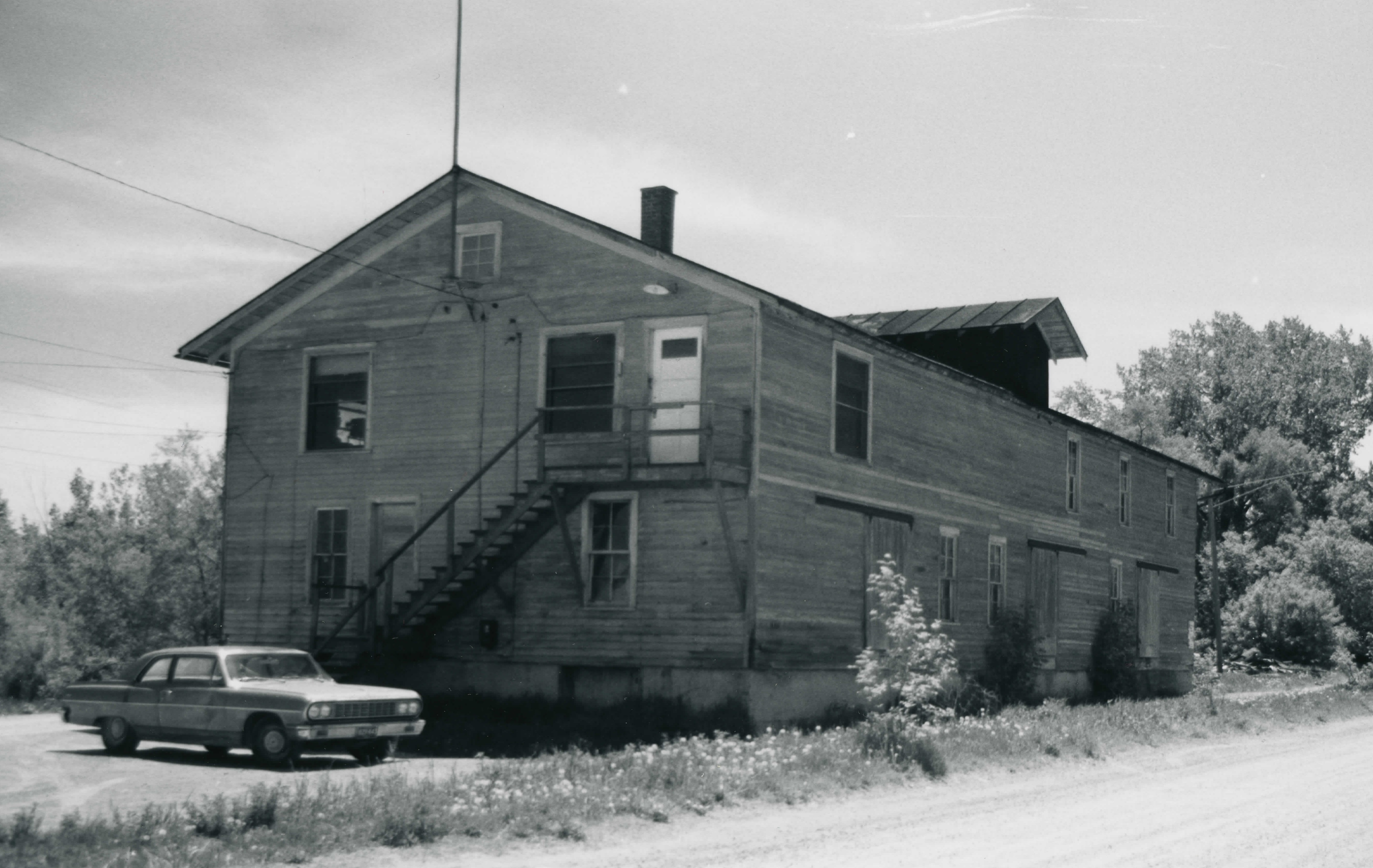 Bay Port Commercial Fishing Historic District, Bay Port MI August 1977